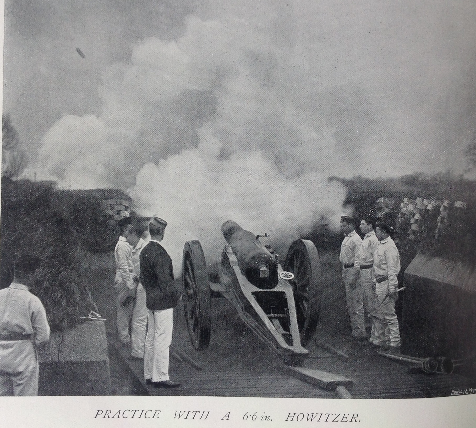 Artillery practise at Shoeburyness with a 6.6 inch Rifled Muzzle Loading Howitzer, from the Navy and Army Illustrated 1897